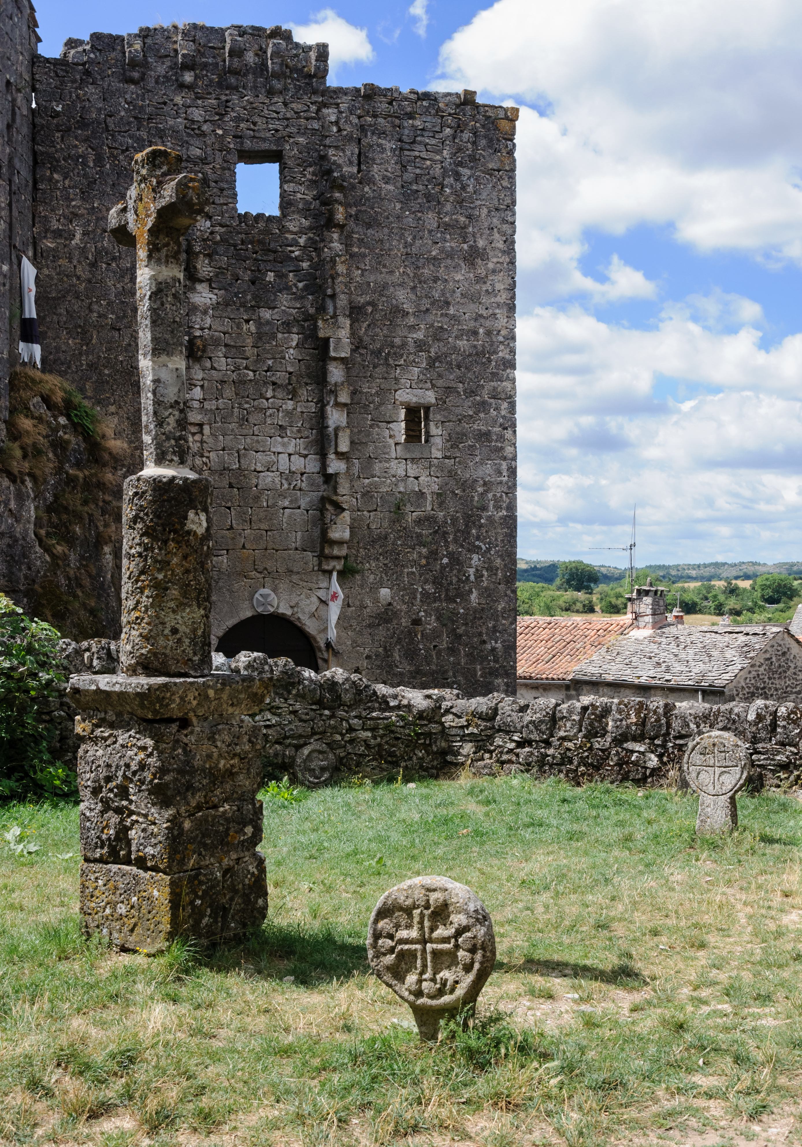 The remains of the castle of the Templar commandery of La Couvertoirade, Aveyron, France, as seen from the old cemetery.